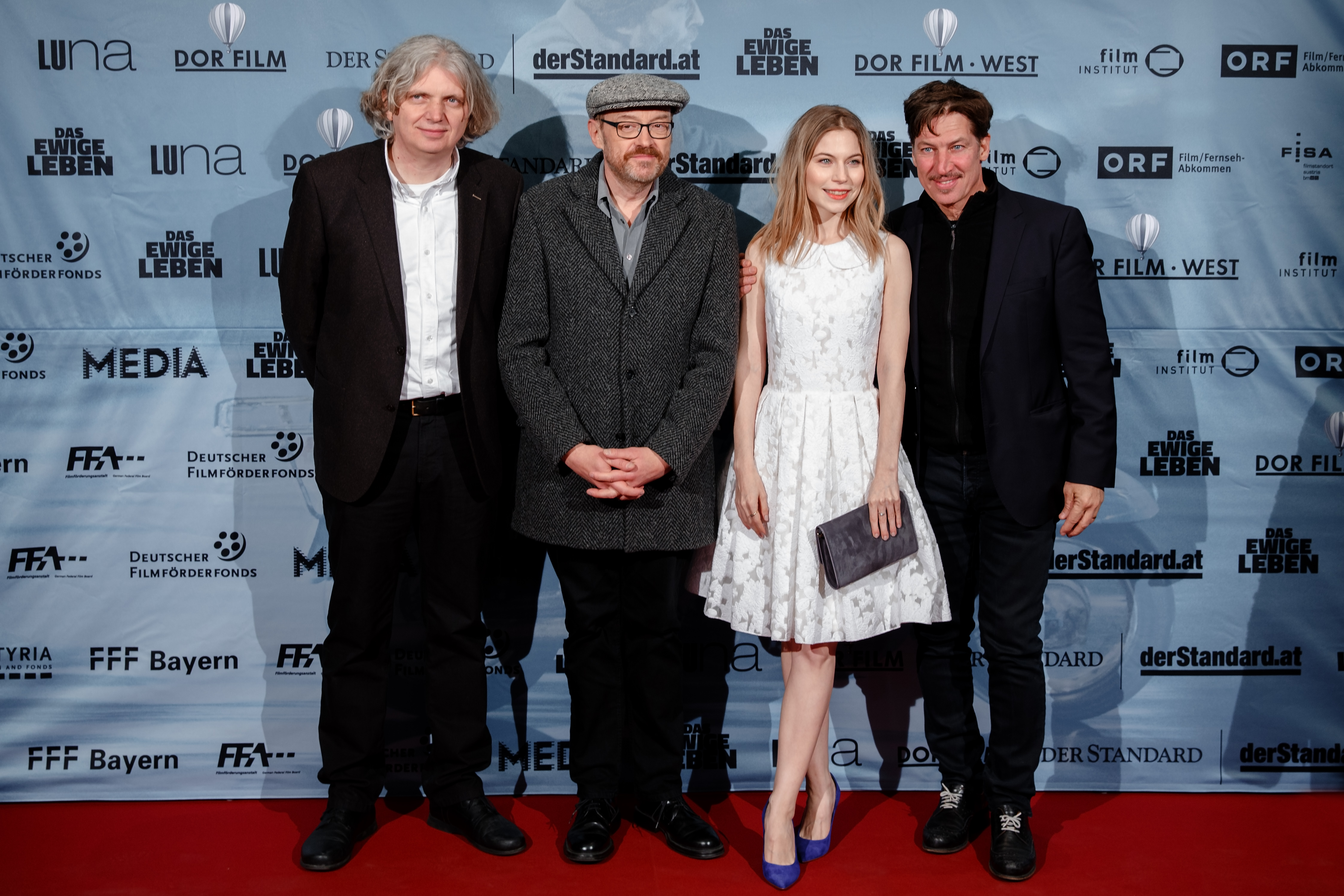 Premiere of the film Das ewige Leben at Gartenbaukino in Vienna, Austria: Wolfgang Murnberger, Josef Hader, Nora von Waldstätten and Tobias Moretti.